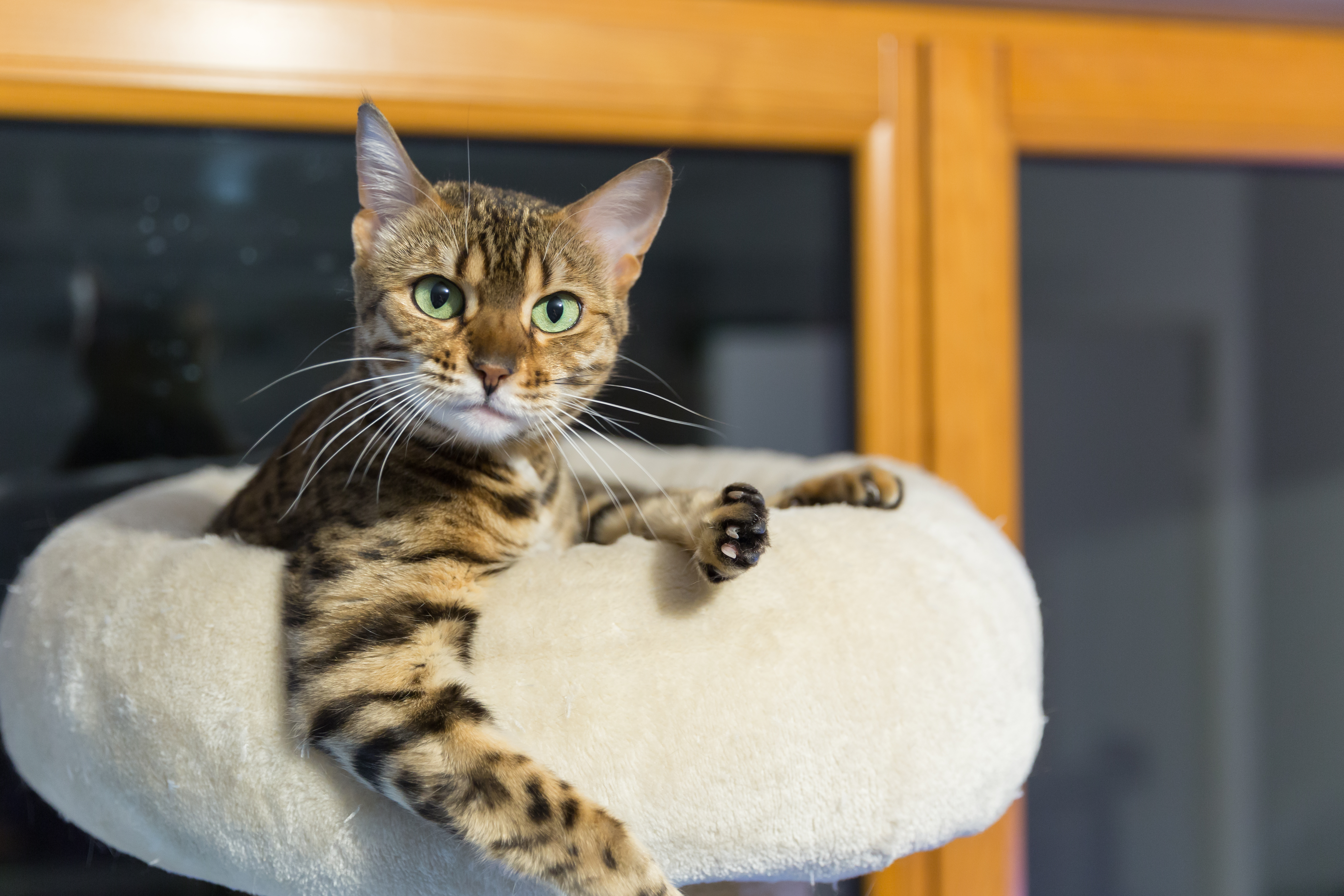 Bengal cat female, three years old.